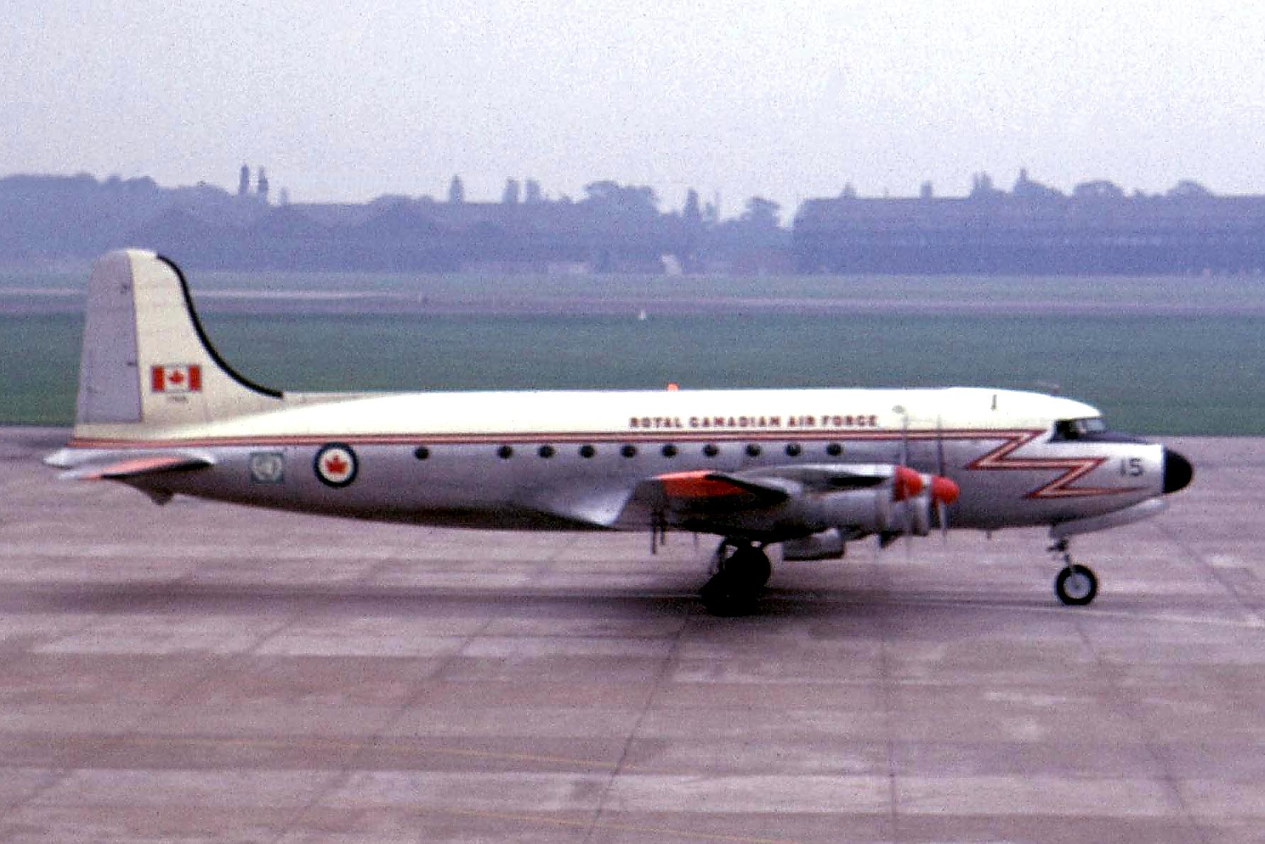 A very poor photo taken at Manchester and blown up from a small image on the original slide. This is actually designated a Canadair C-54GM as the early aircraft utilised surplus C-54/DC-4 airframes bought from Douglas (hence being unpressurised). These were all delivered to the RCAF, Trans Canada Airlines & Canadian Pacific. The aircraft bought by BOAC and designated 'Argonaut' were built to Douglas Blueprints by Canadair.